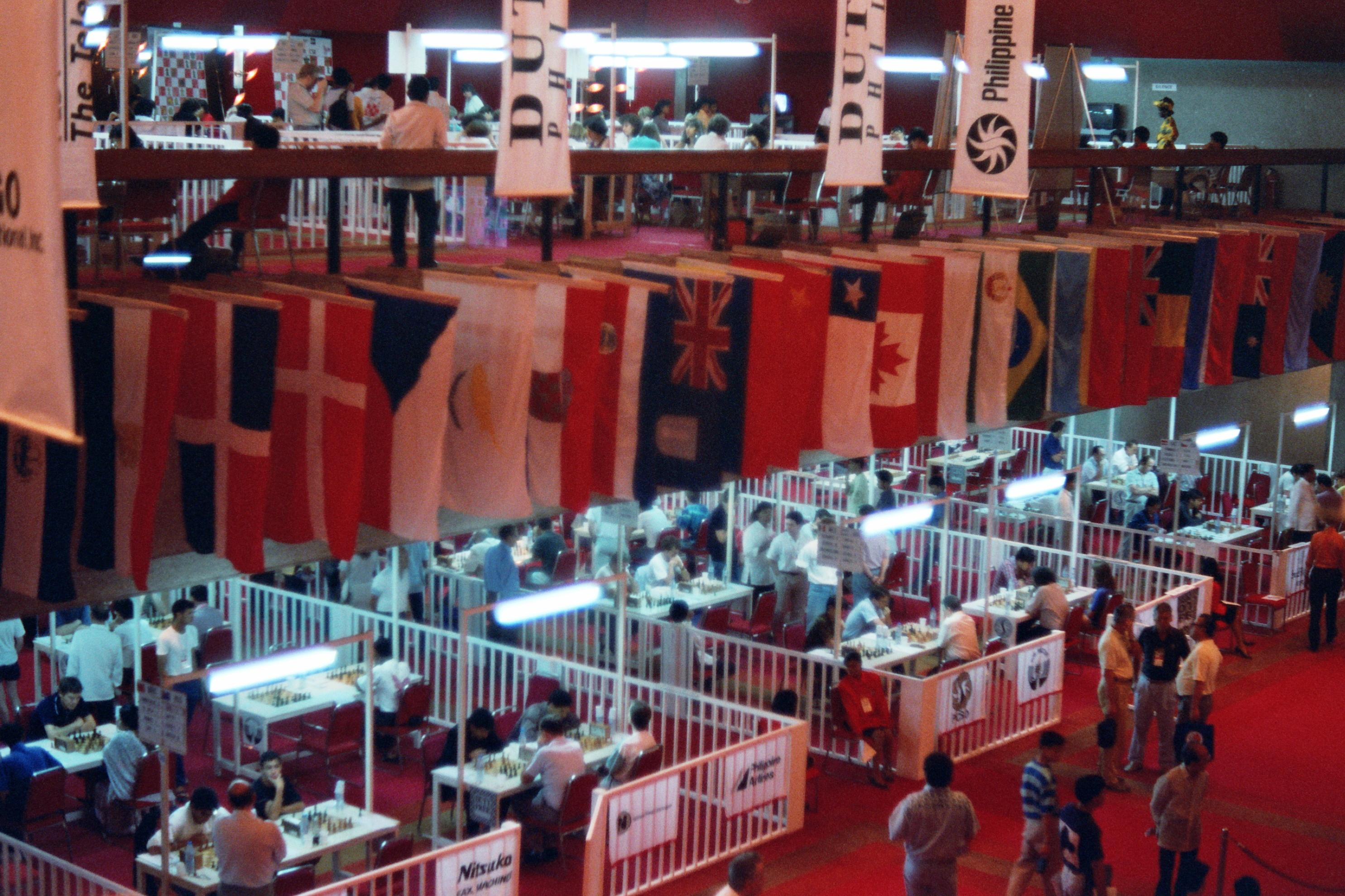 tournament hall with cages on 2 floors, Chess Olympiad 1992, Photographer Gerhard Hund.